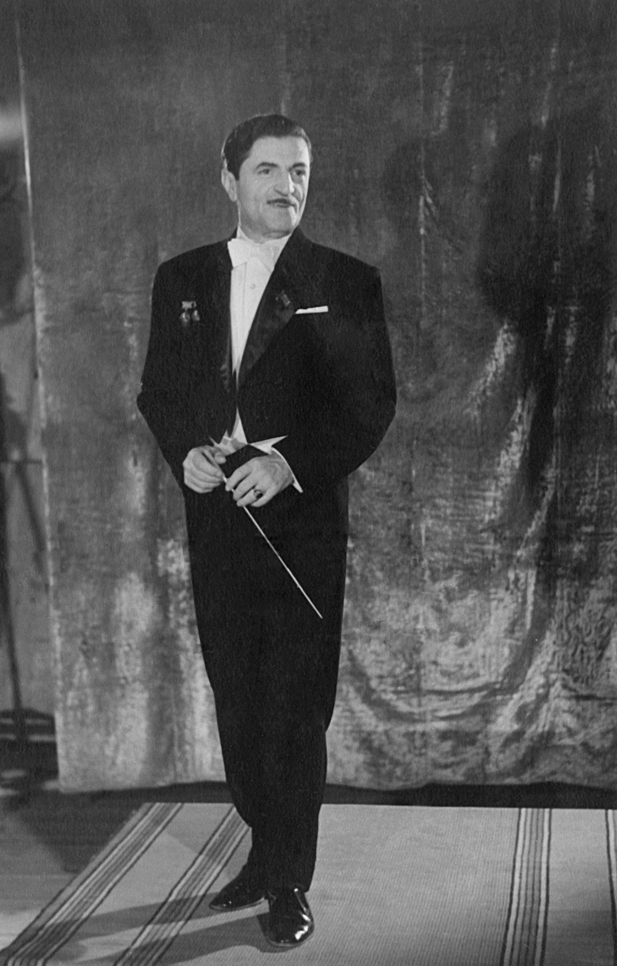 Niyazi - Azerbaijani conductor, Hero of Socialist Labour, People's Artist of the USSR